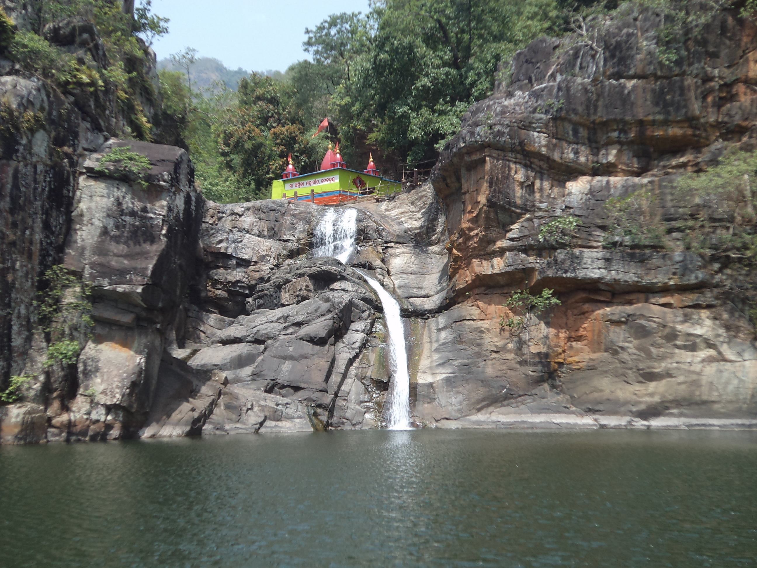 The water fall of Devkund